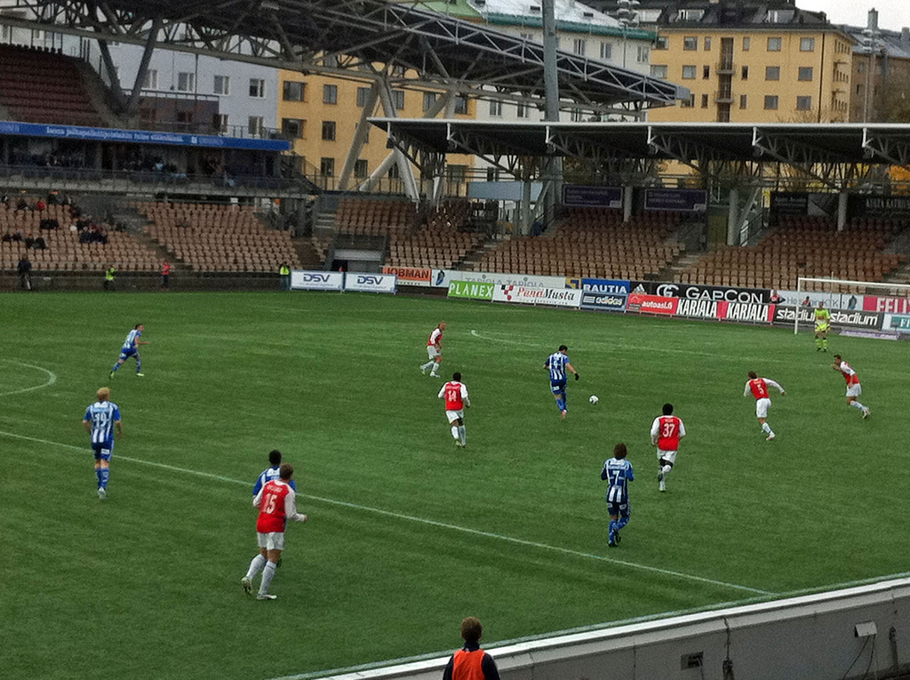 Finnish football club HJK (in the blues) playing at their home stadium Sonera Stadium in Helsinki